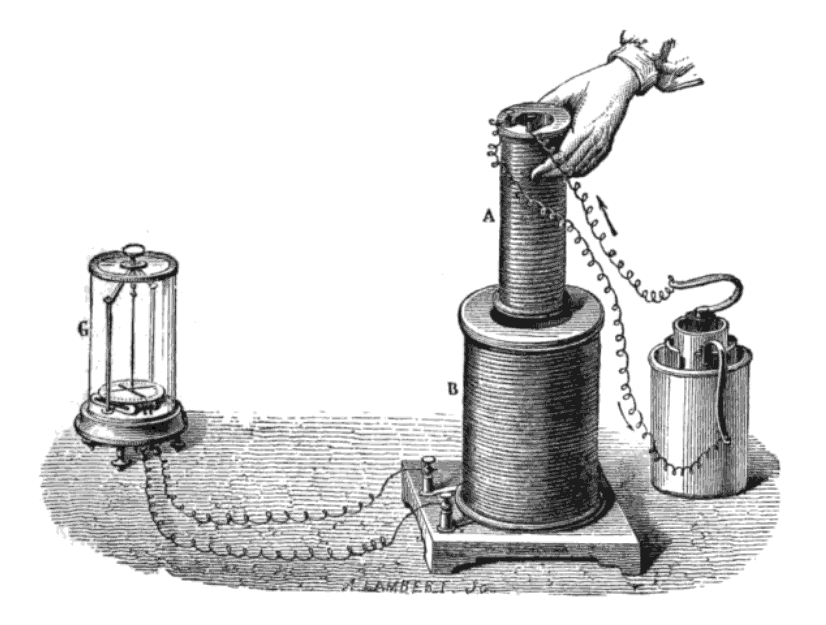 Drawing of Michael Faraday's 1831 experiment showing electromagnetic induction between coils of wire, using 19th century apparatus, from an 1892 textbook on electricity. On the right is a liquid battery that provides a current that flows through the small coil of wire (A) creating a magnetic field. When the small coil is stationary, no current is induced. However, when the small coil is moved in or out of the large coil (B), the change in magnetic flux induces a current in the large coil. This is detected by the deflection of the needle in the galvanometer instrument (G) on the left.